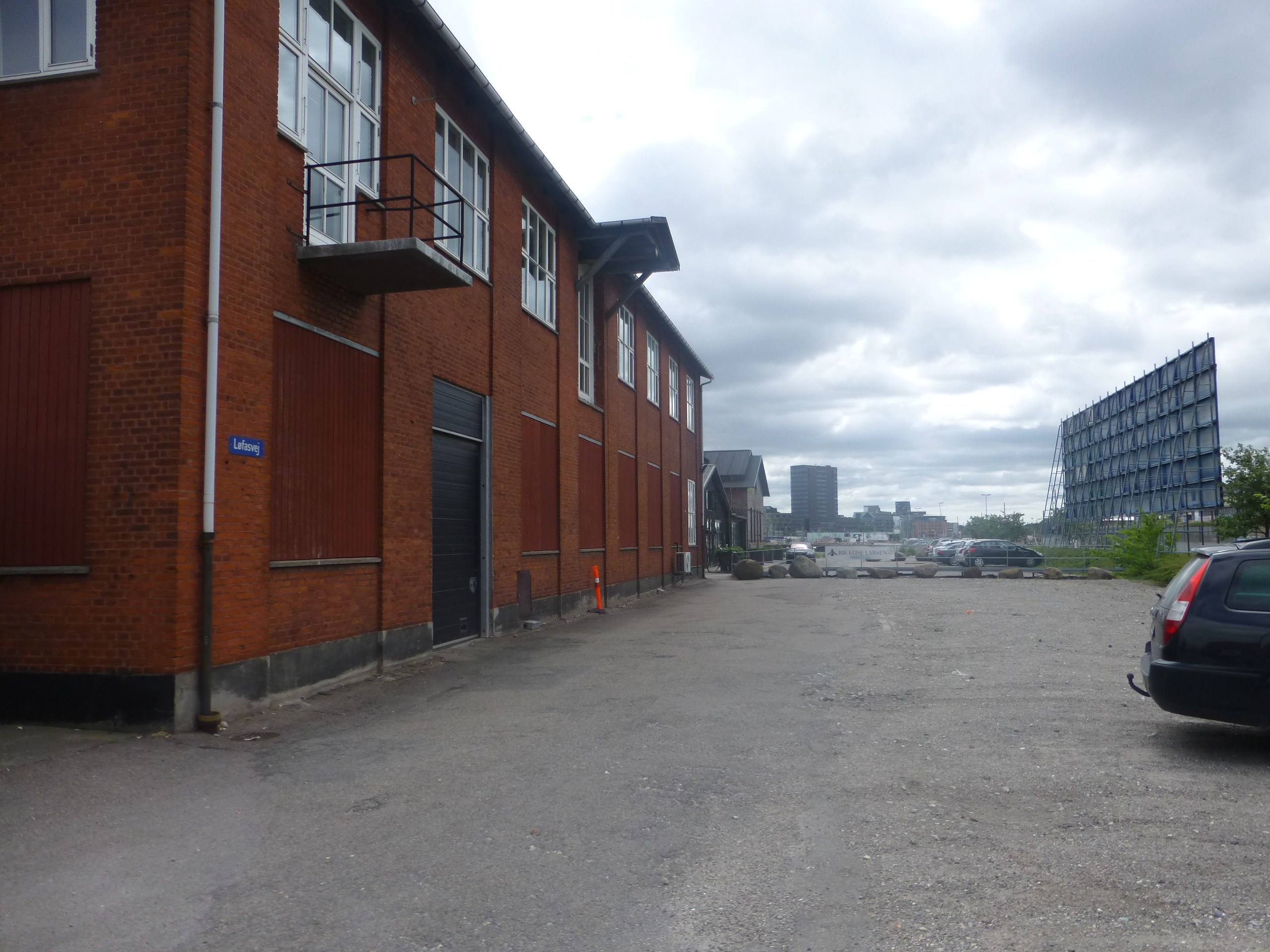 The street Løfasvej in Nordhavn in Copenhagen. In 2014 the name was changed to Corkgade.